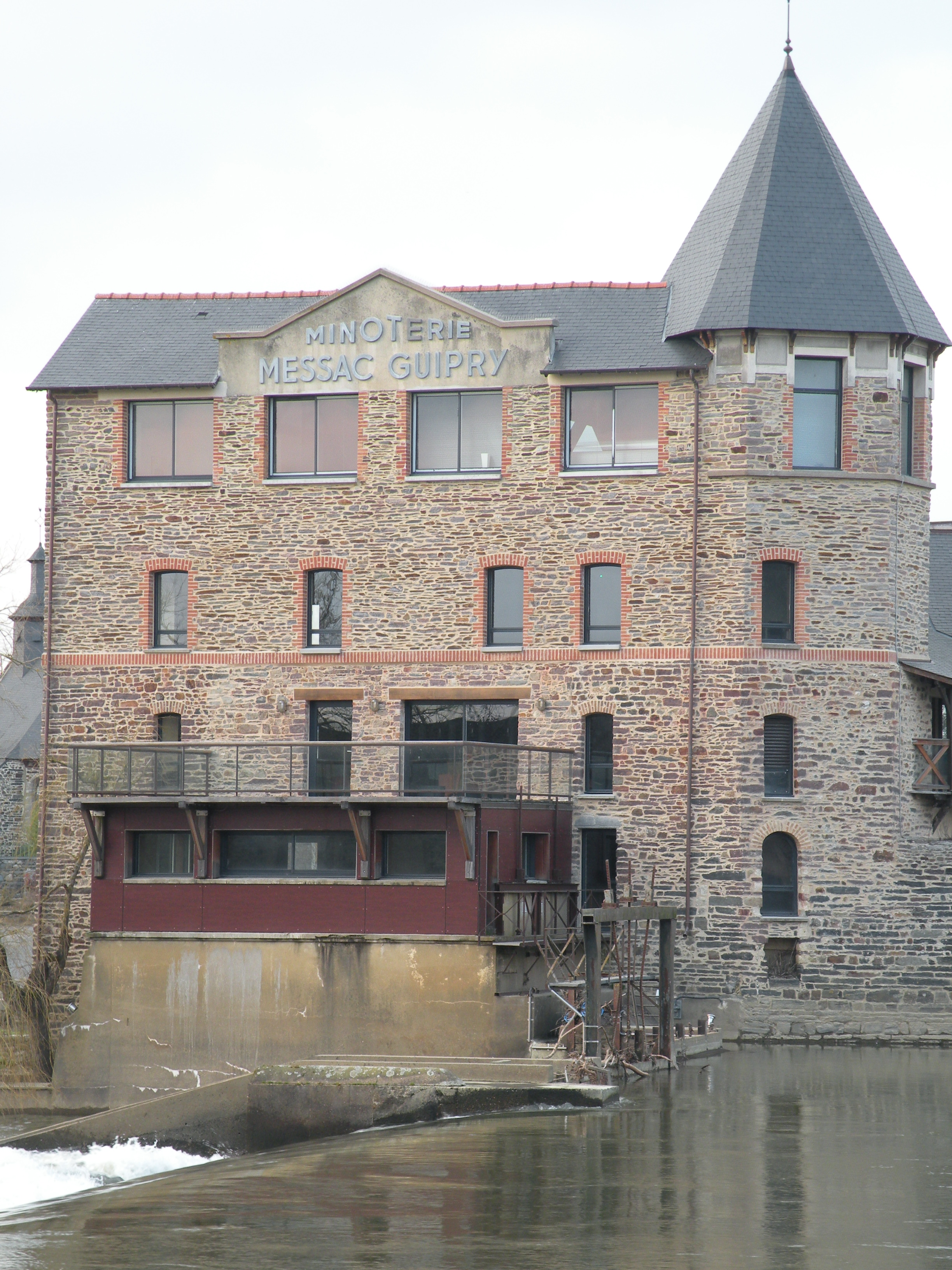 Former gristmill of Guipry.